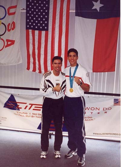 Alfredo Taurisano and Steven Lopez 2 times Olympic Gold Taekwondo